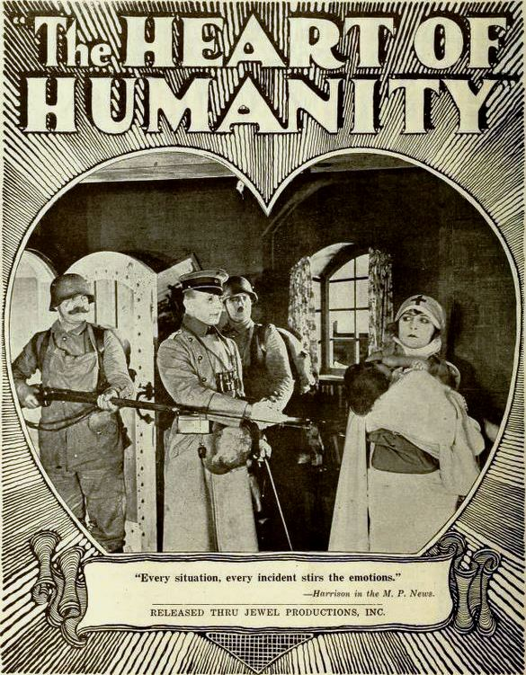 Ad for the American film The Heart of Humanity (1918) with Erich von Stroheim and Dorothy Phillips, on page 412 of the January 25, 1919 Moving Picture World.